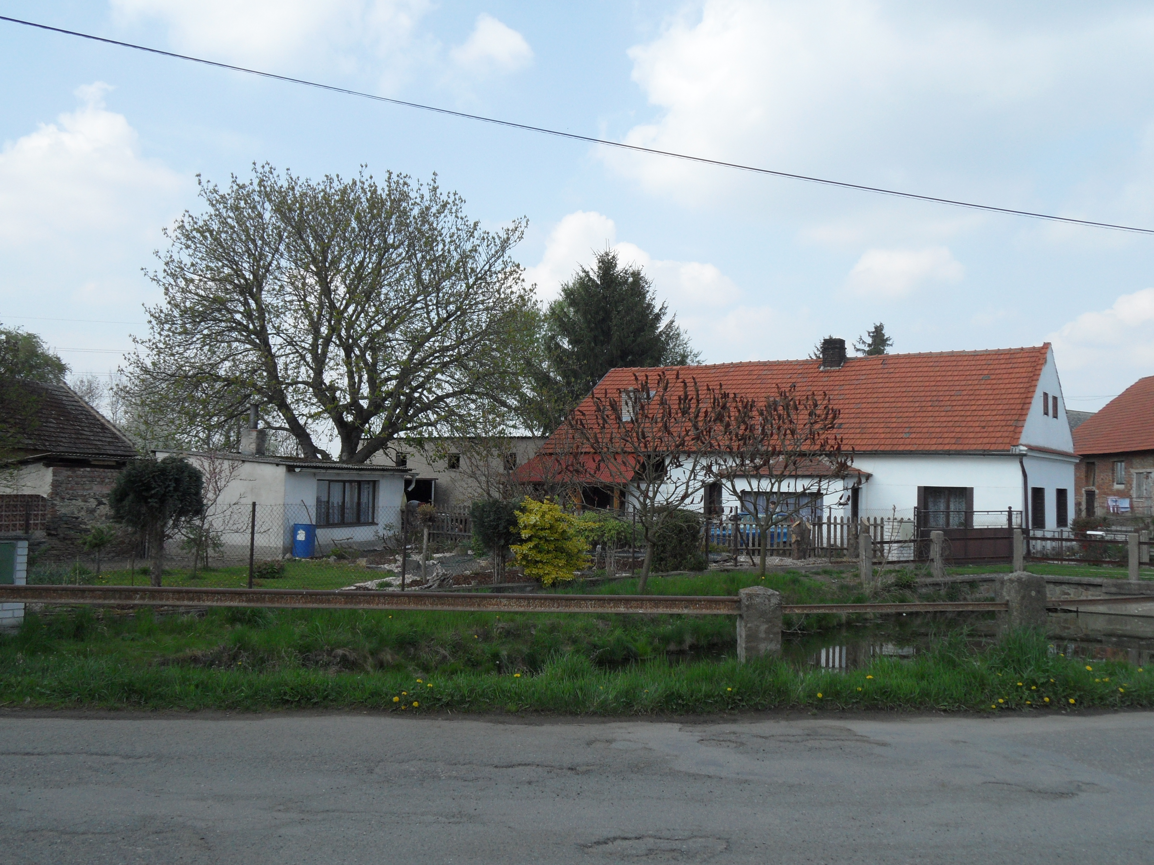 Chrást (Křesetice) E. Housed along Main Road, Kutná Hora District, the Czech Republic.